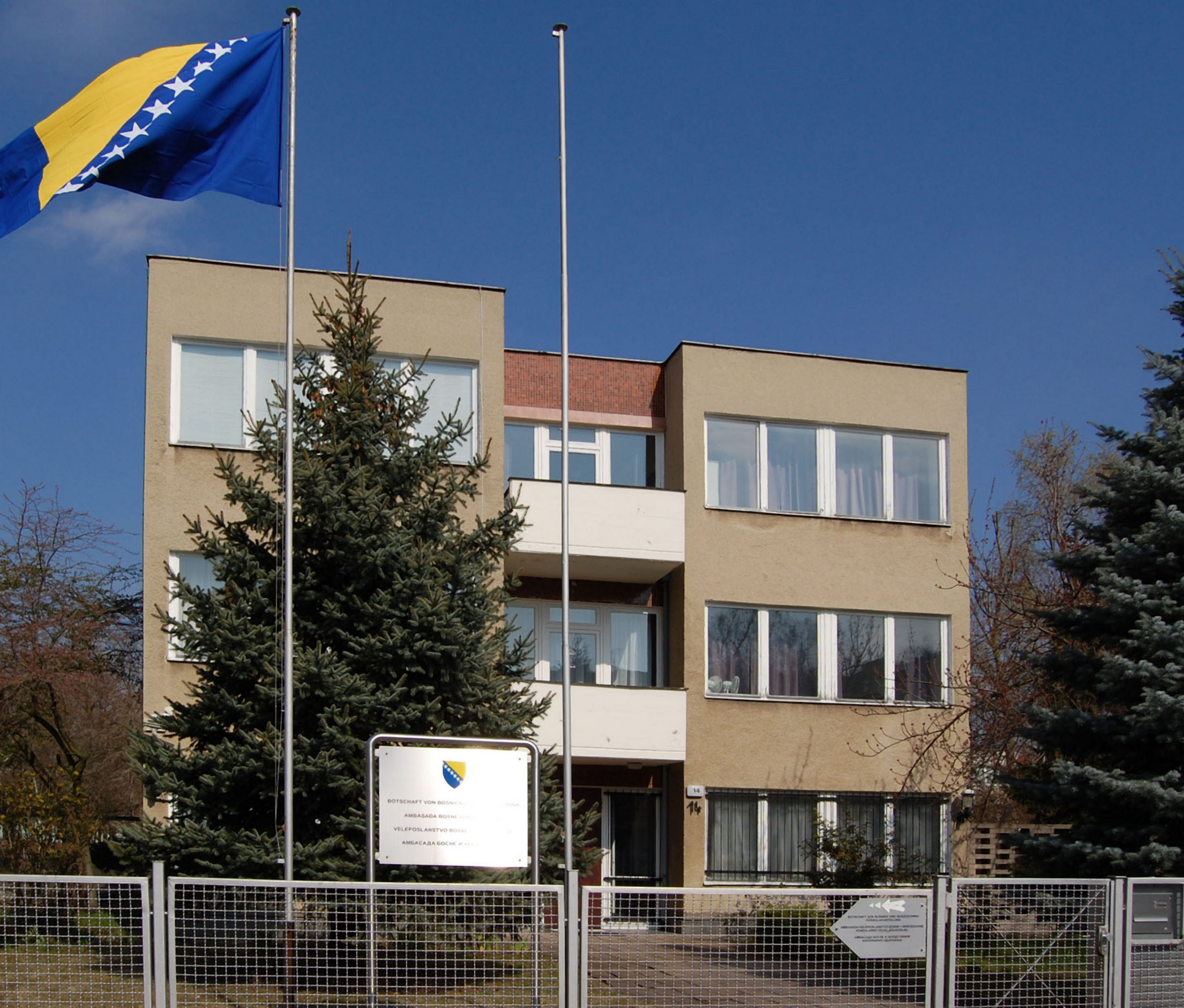 Embassy of Bosnia and Herzegovina in Berlin